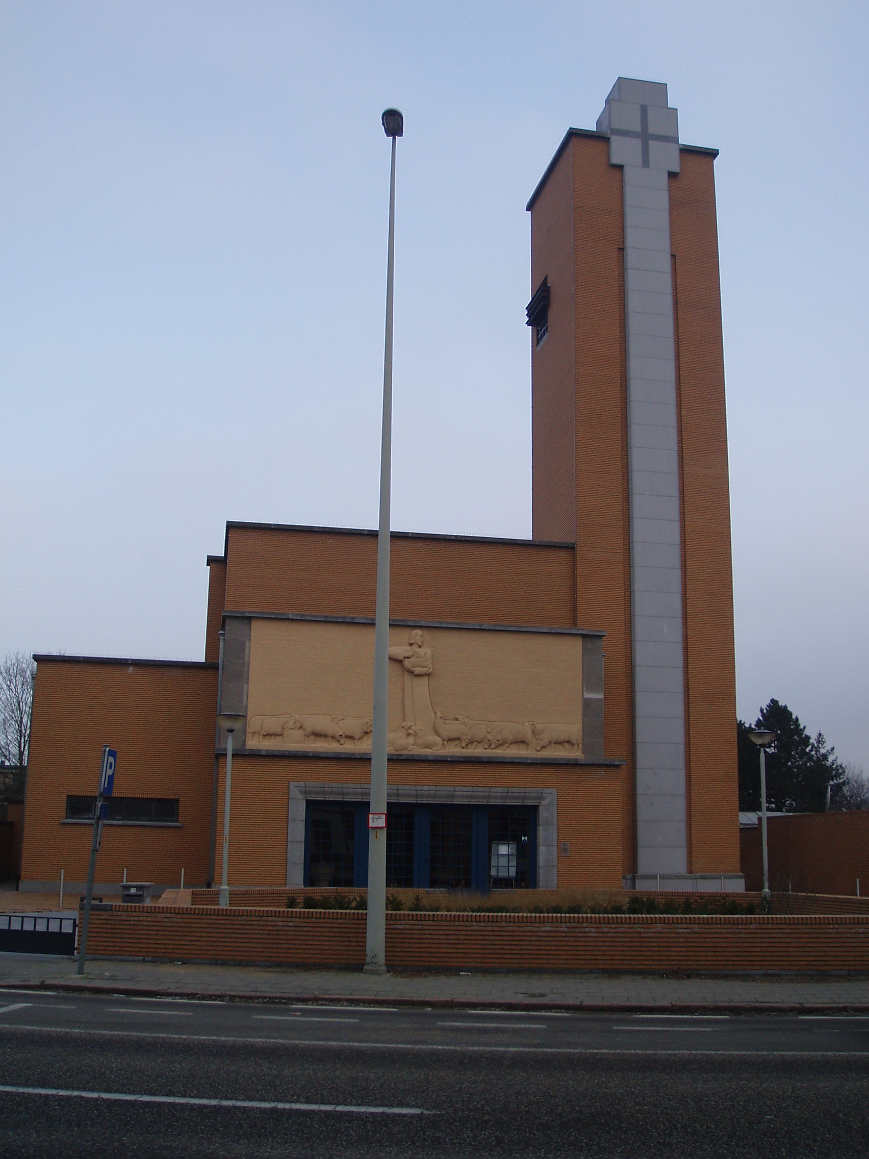 Heilig Hart church Lier